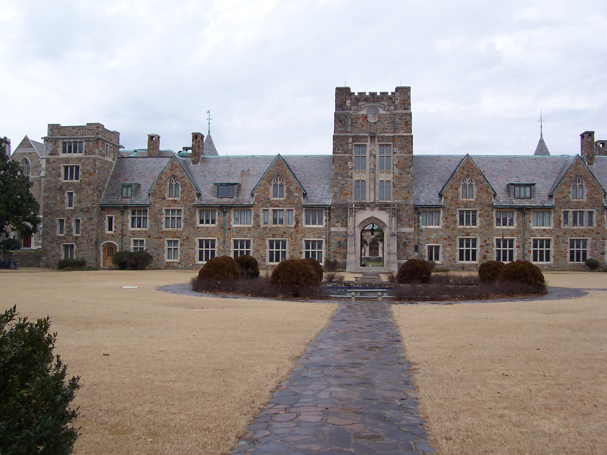 Picture of Mary resident hall at Berry College taken by the author in 2004.